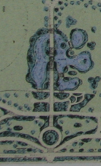 Detail of the 1911 plan shown on a sign in Footscray Park, Footscray, Victoria, Australia.